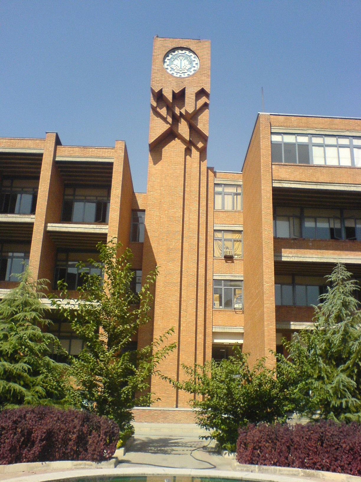 Sharif University Avicenna Building